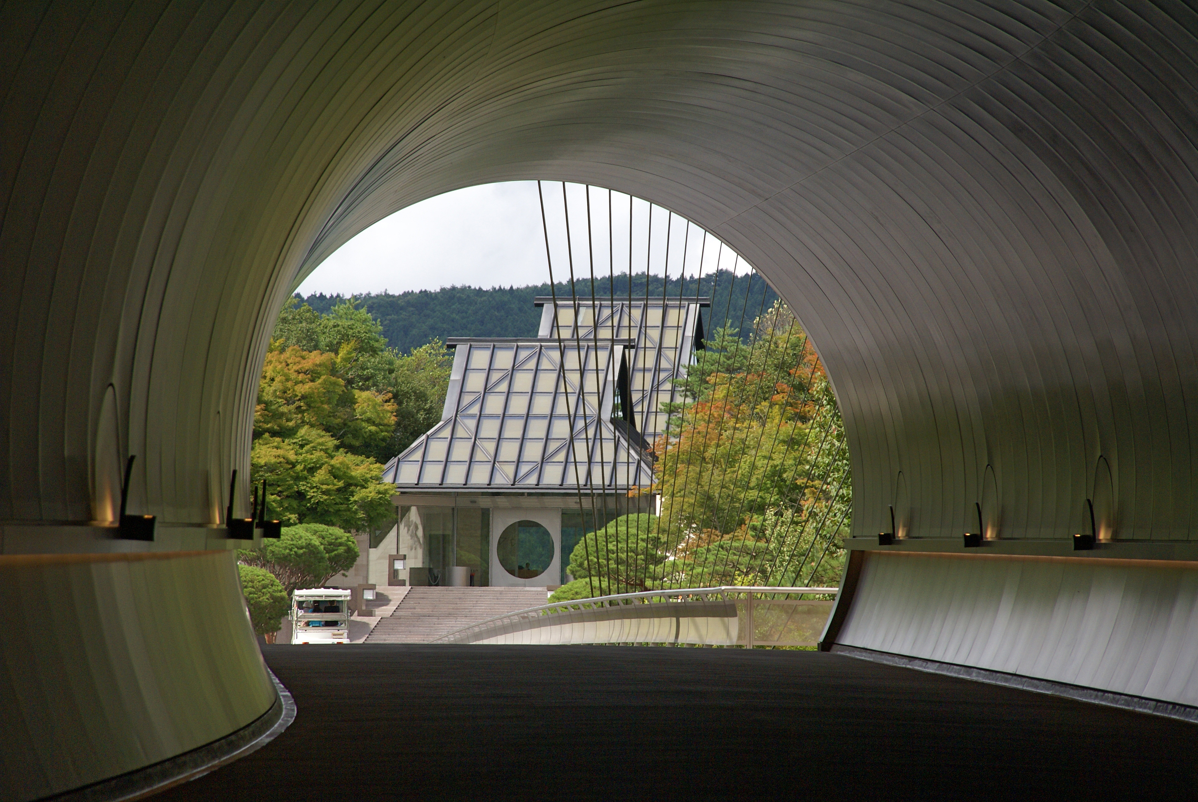 Miho Museum, designed by I. M. Pei, in Koka, Shiga prefecture, Japan